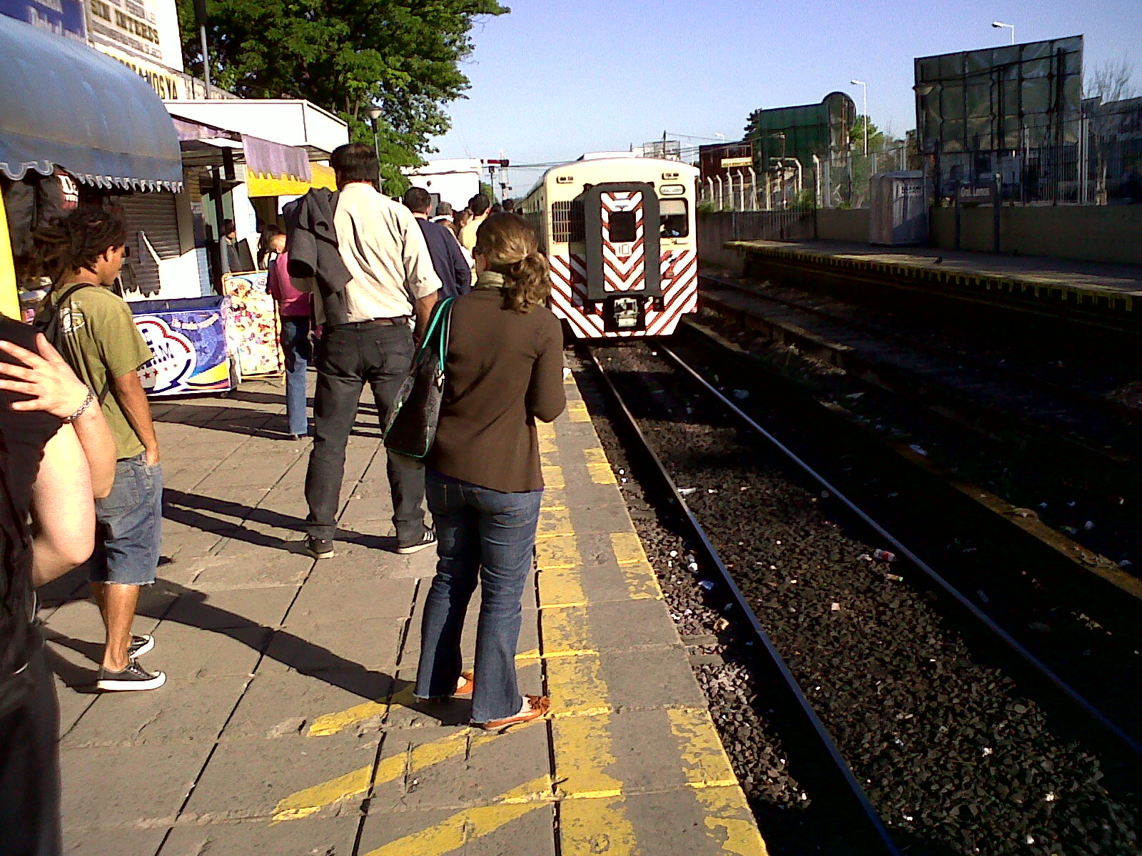 General Lemos Station, San Miguel, Buenos Aires, Argentina